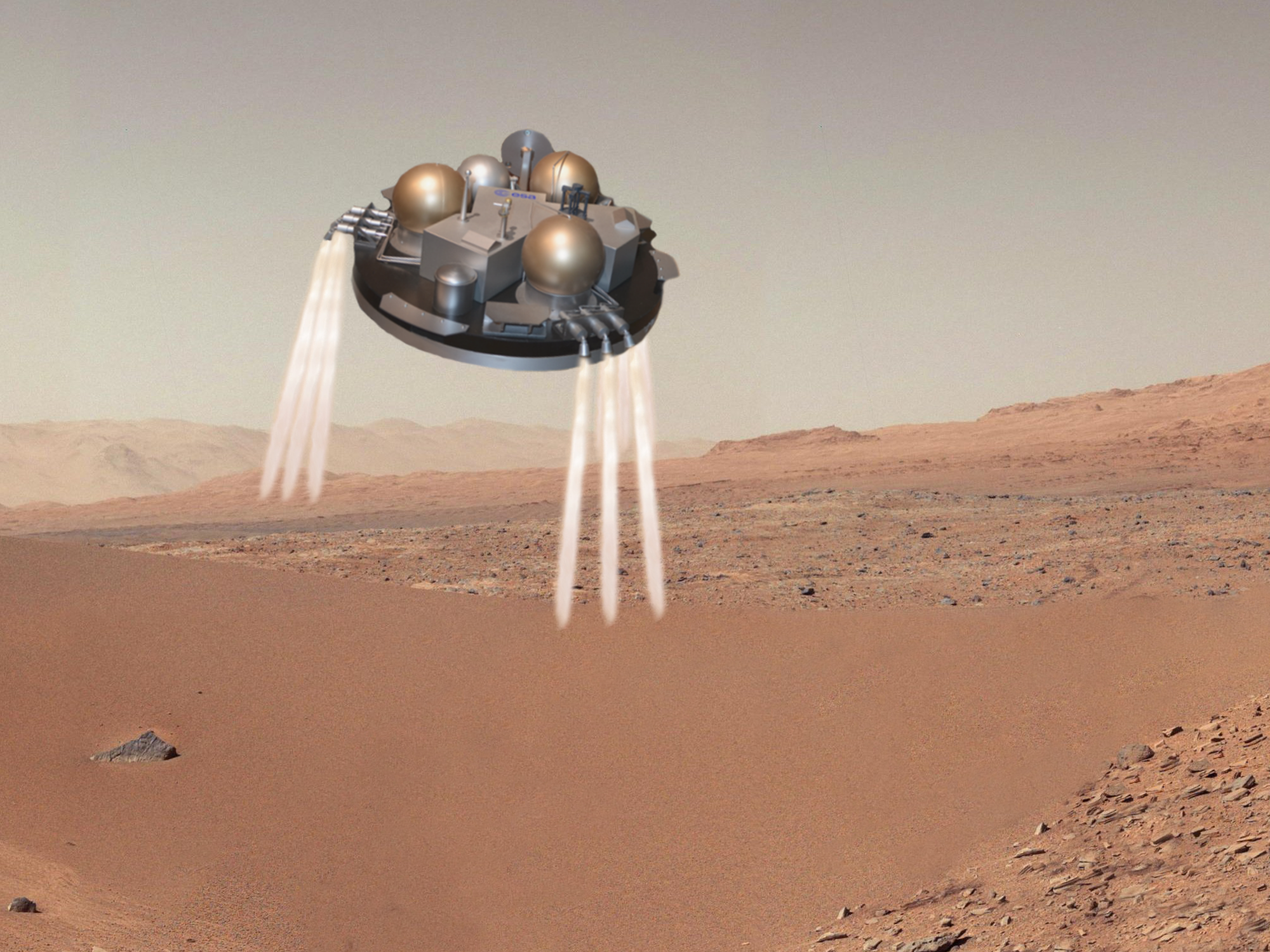 Schiaparelli landing on Mars (photomontage)